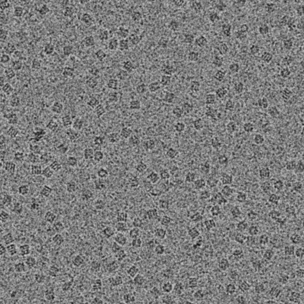 CryoEM image of GroEL